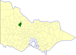 Location of the Shire of Charlton within Victoria.